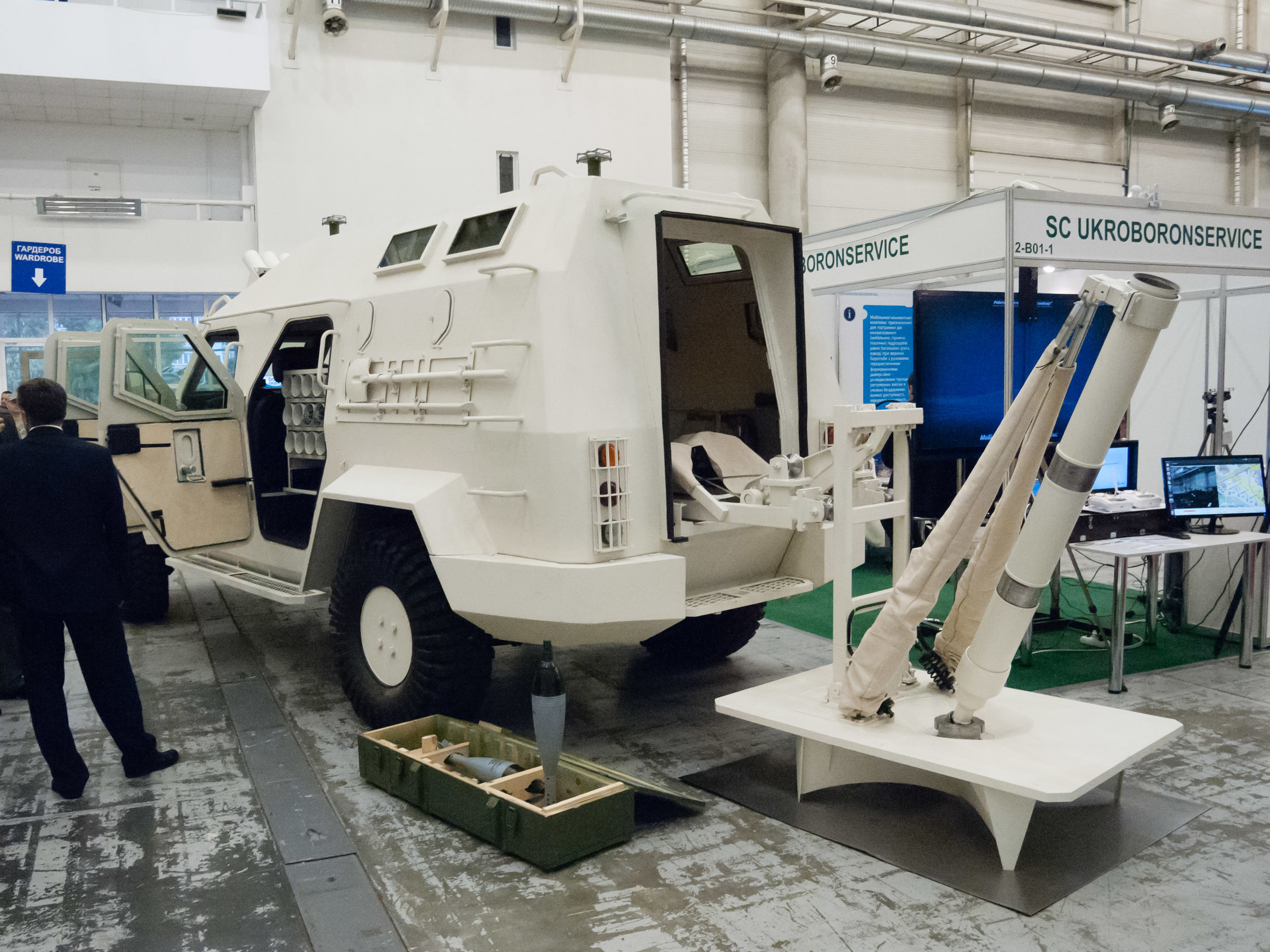 Mobile Mortar Complex (MMC) on Bogdan Bars-8 APC chassis (Ukraine)